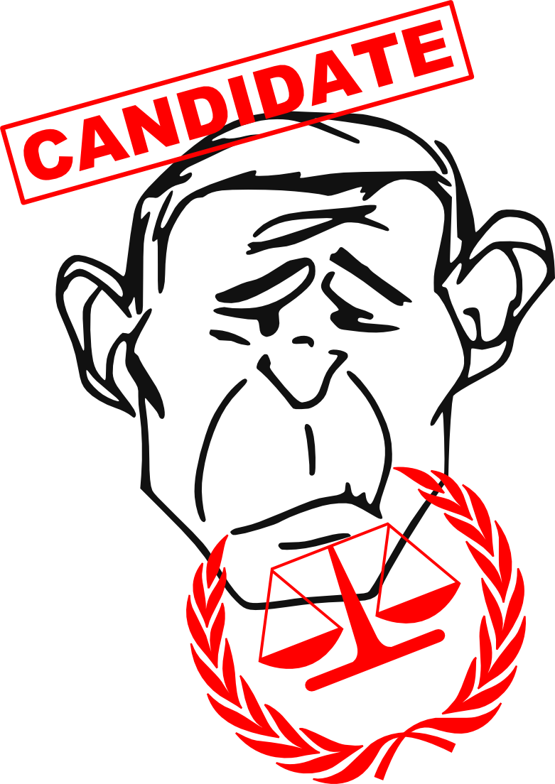 George W. Bush cartoon with international justice symbol